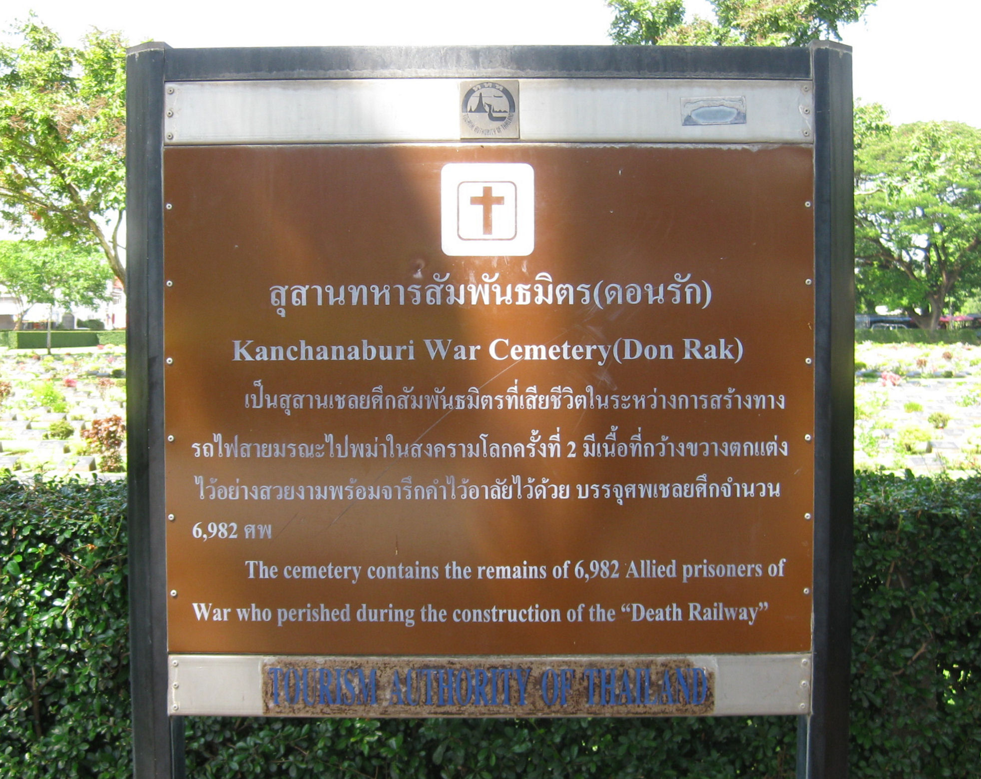 Kanchanaburi War Cemetery, also known as Don Rak, sign. Commonwealth War Grave Commission. Kanchanaburi, Thailand. 2nd world war allies graves.